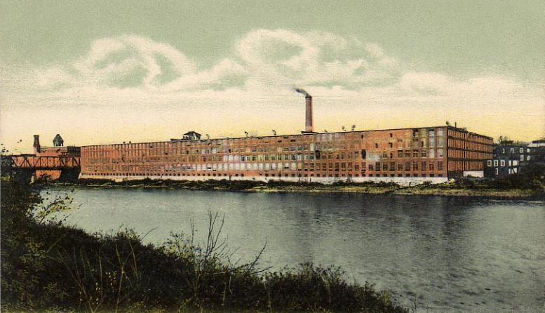 Print Works, Amoskeag Manufacturing Company, Manchester NH; from a c. 1906 postcard.